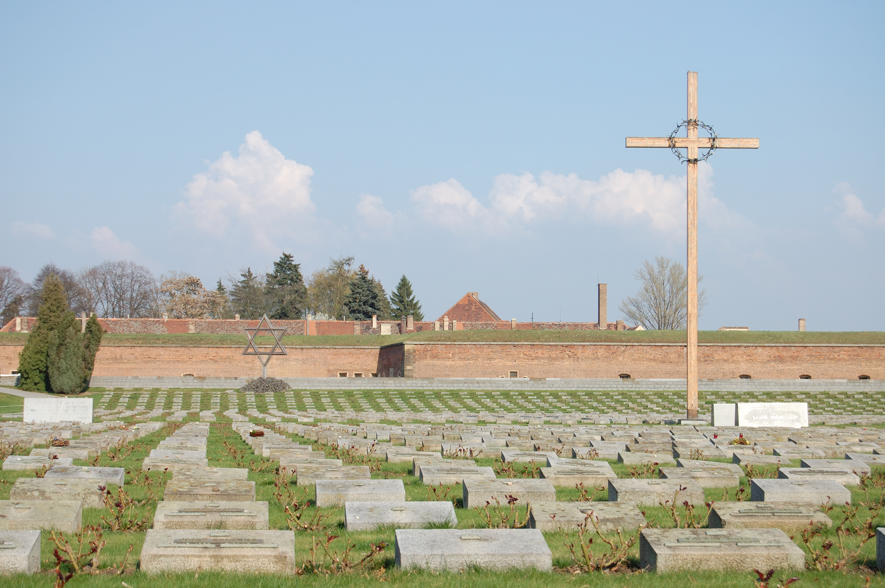 National Cemetery in a place of former Jewish Ghetto Terezin.